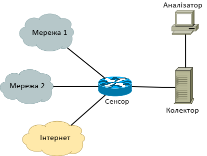 Netflow architecture in Ukrainian.